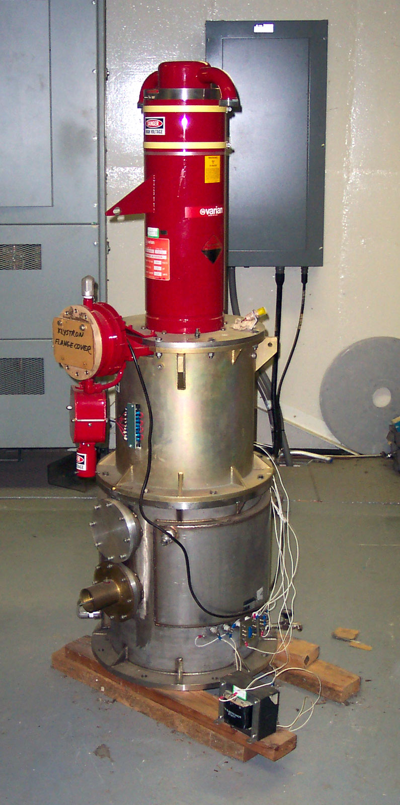 Klystron tube found at the Canberra Deep Space Communications Complex. This is a high power microwave oscillator tube. I took this photo on a university trip.